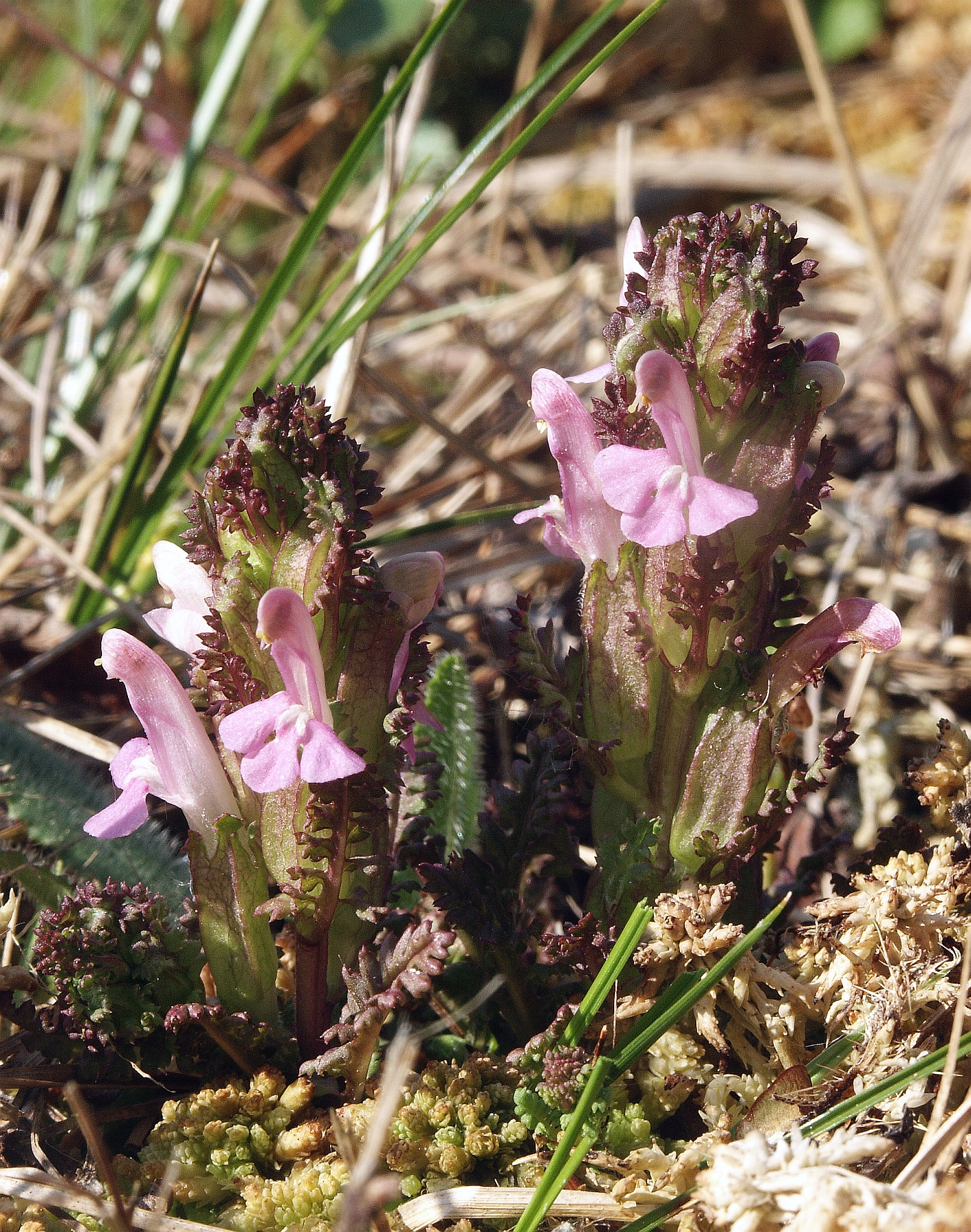 Pedicularis sylvatica, Virngrund, Germany